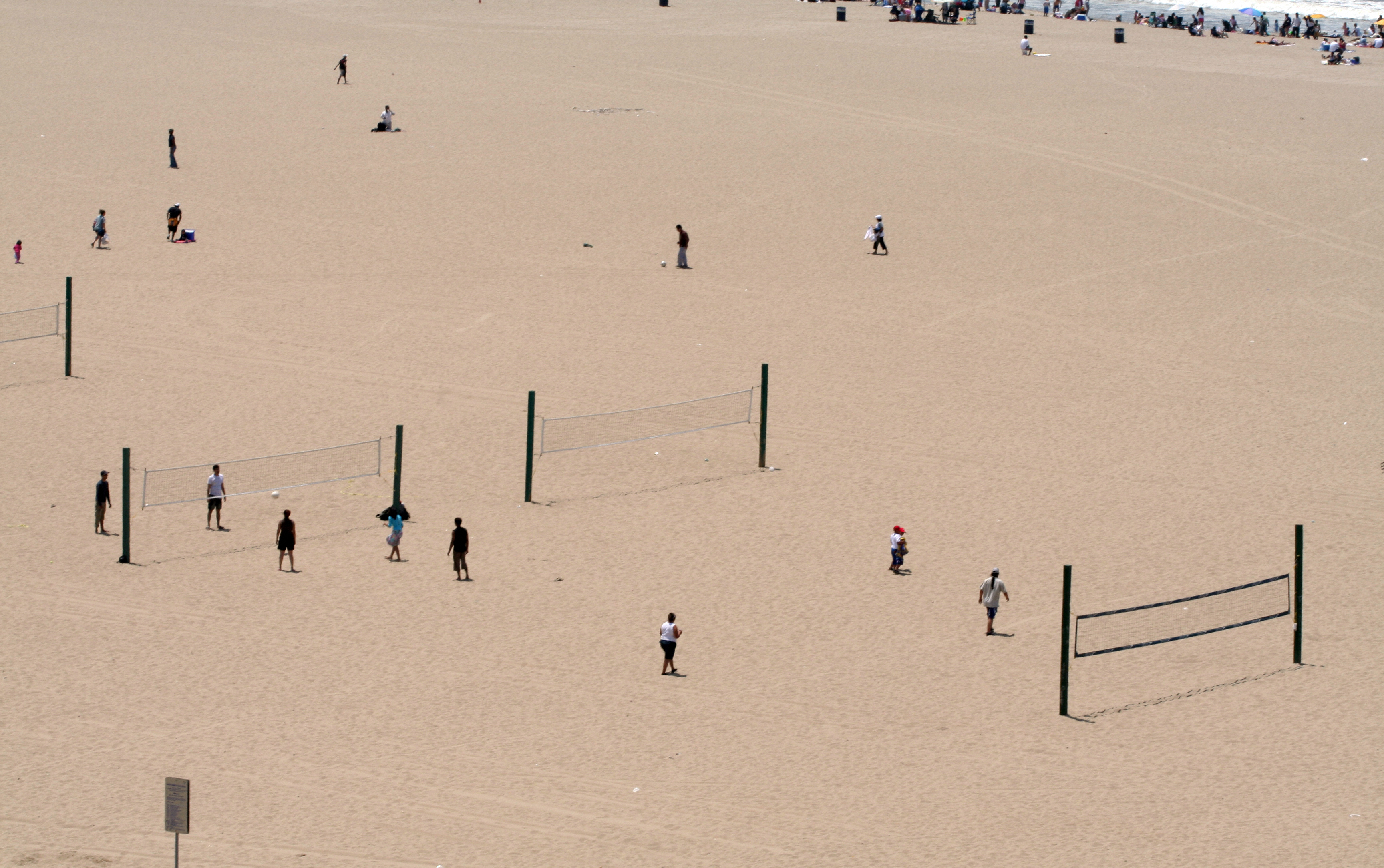 Memorial Day, Santa Monica, CA Beach volleyball in Santa Monica beach